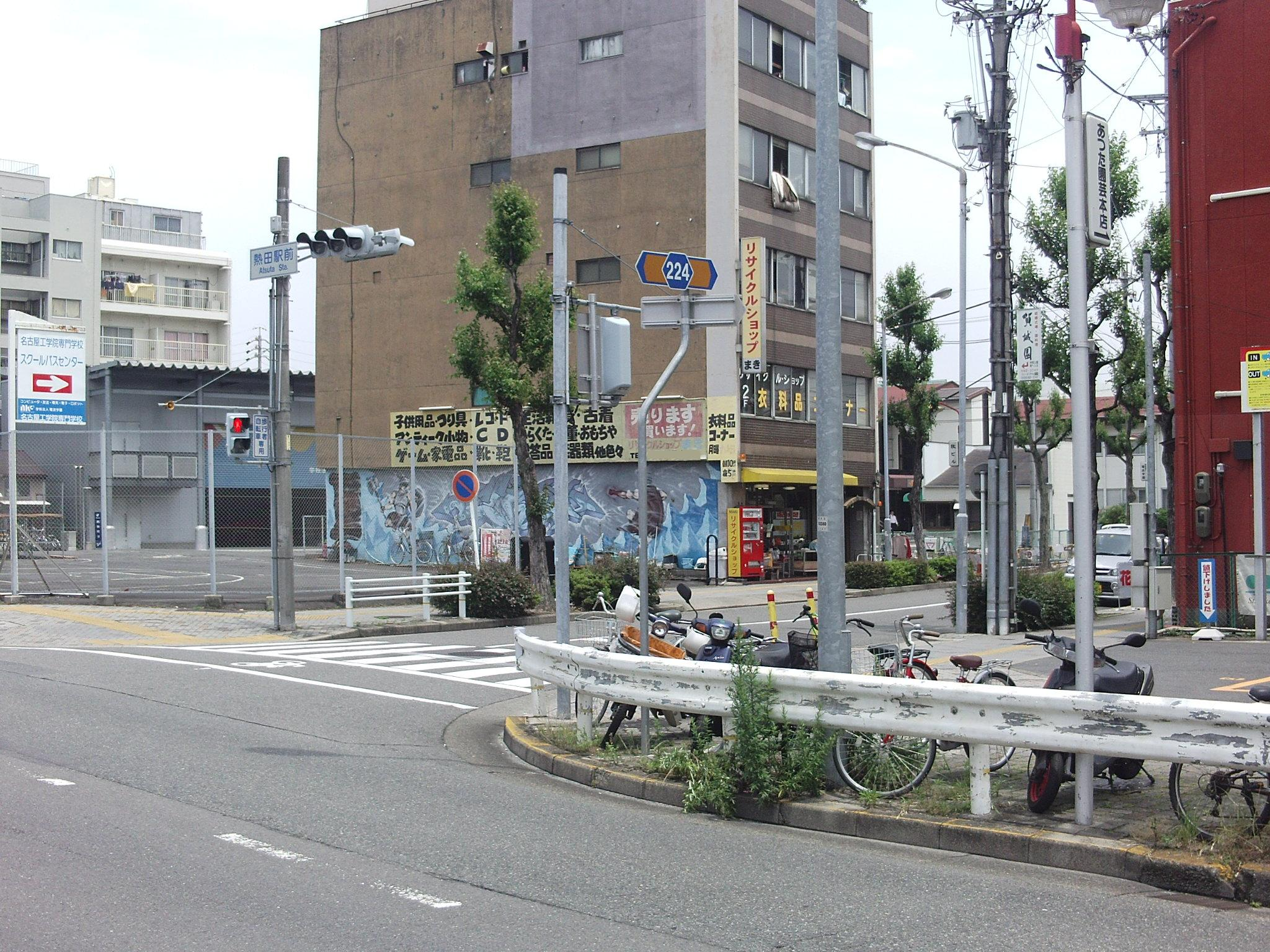 The Aichi Prefectural Road Routes 224 and 226 overlap section in Morigocho, Atsuta-ku, Nagoya City